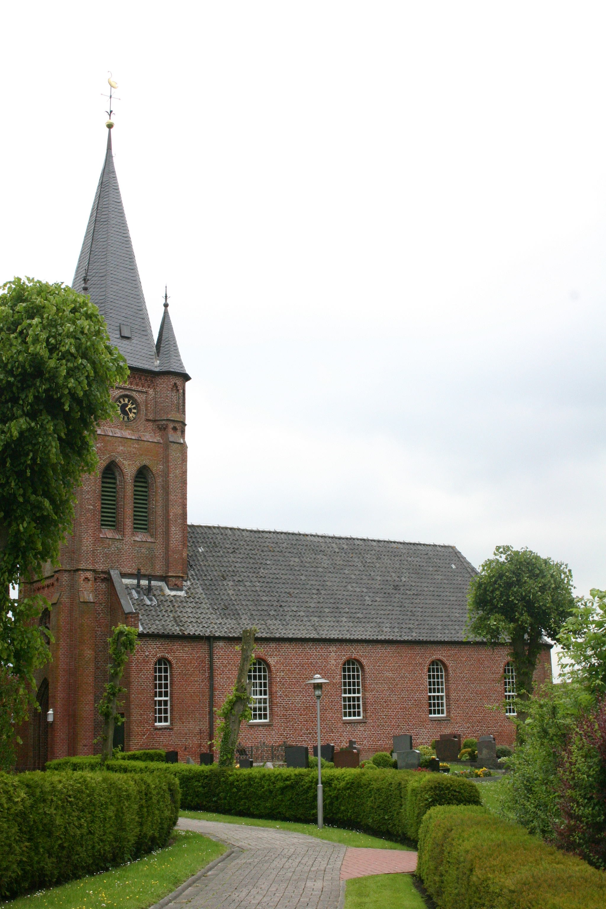 Historic church in Woquard, district of Aurich, East Frisia, Germany